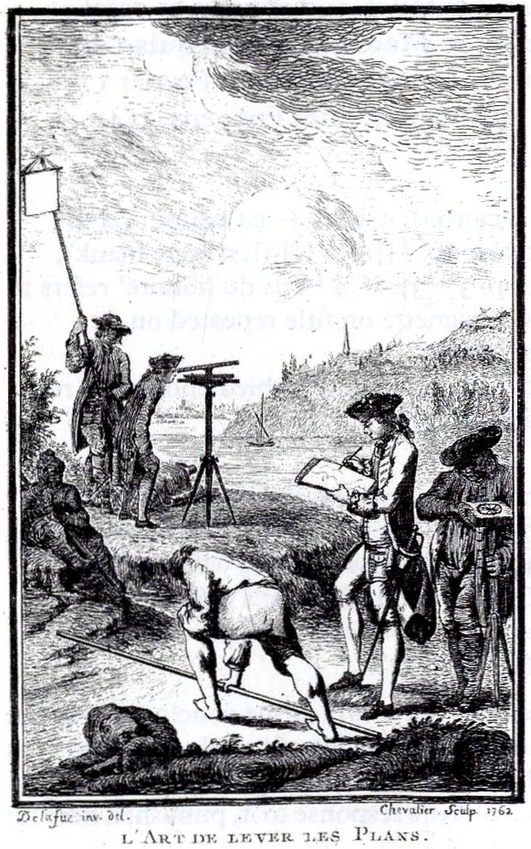 Frontispiece of the book Dupain Montesson, Engineer geographer Camps and Armies of the King of France. The art of raising plans. Paris. Jombert. 1762